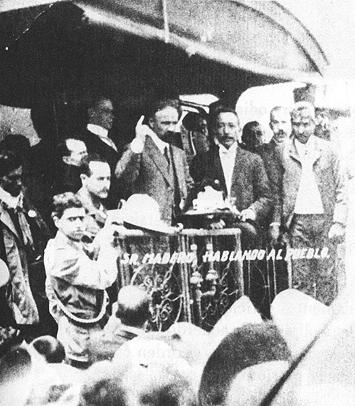 Francisco I. Madero campaigns from the back of a railway car in the Mexican election of 1910 against Porfirio Díaz.